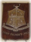 Logo of St.Thomas's Hall, MCC